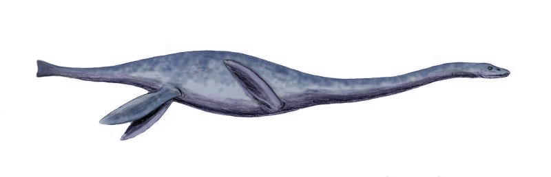 Mauisaurus haasti, a plesiosaur from the Late Cretaceous of New Zealand, pencil drawing